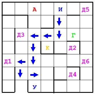 Terra incognita sample